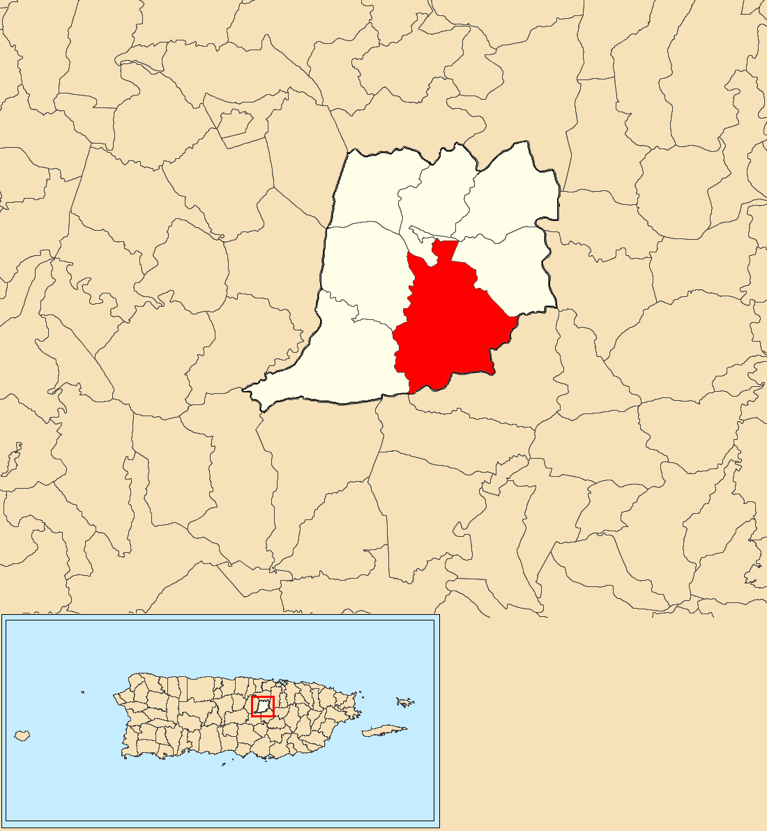 Anones, Naranjito, Puerto Rico locator map